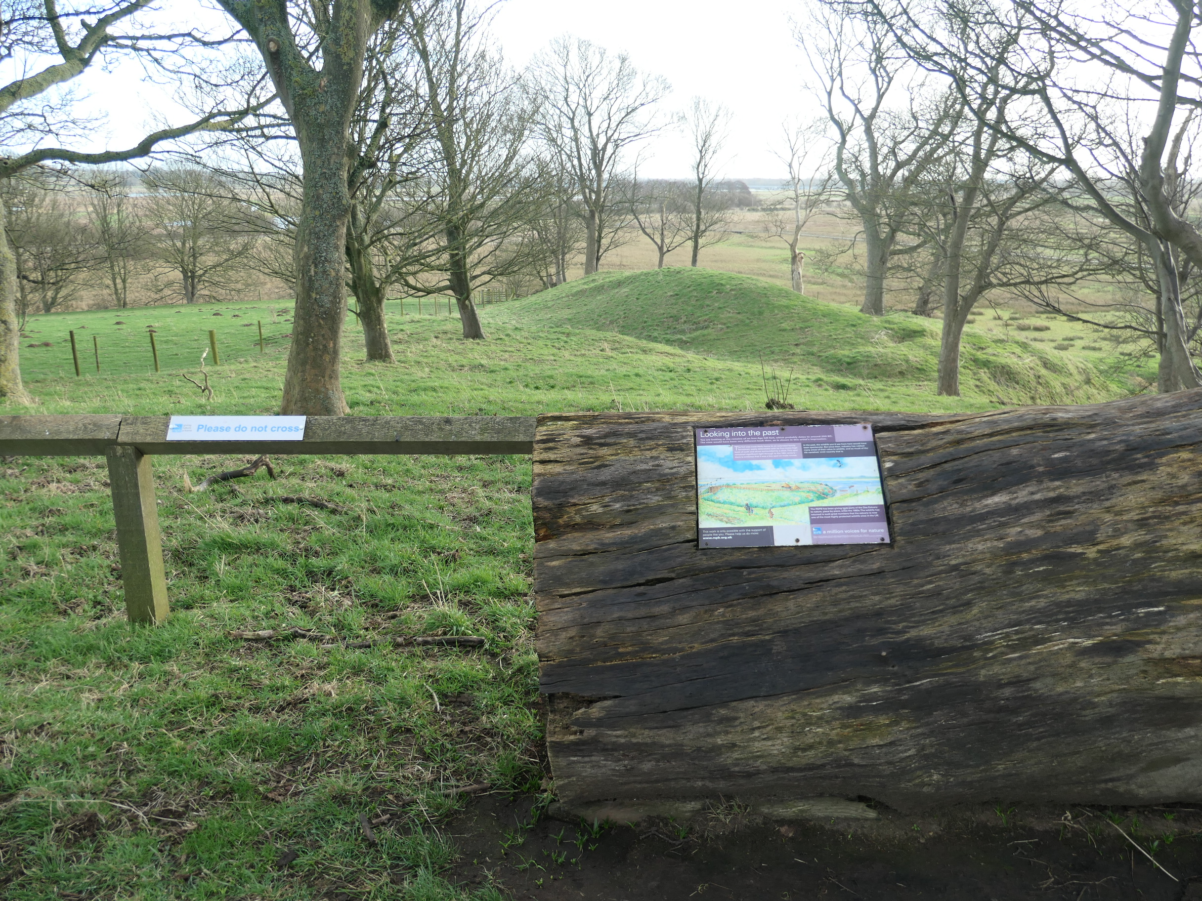 Iron Age hillfort at Burton Point interpreted